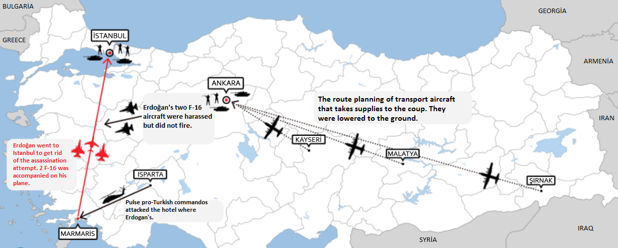 Image showing a coup attempt plot in Turkey's borders.